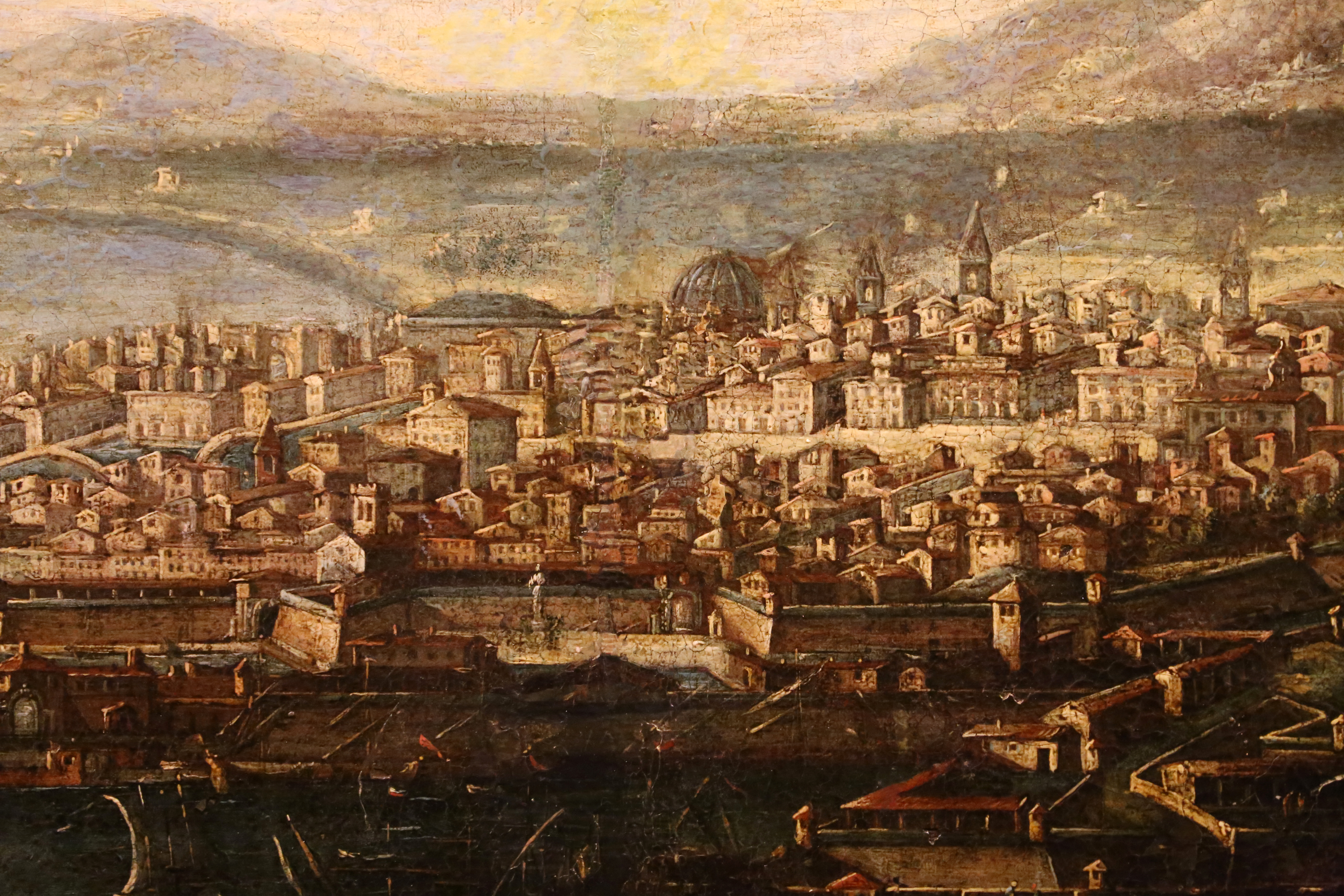 Paintings in the Museo della città (Livorno)